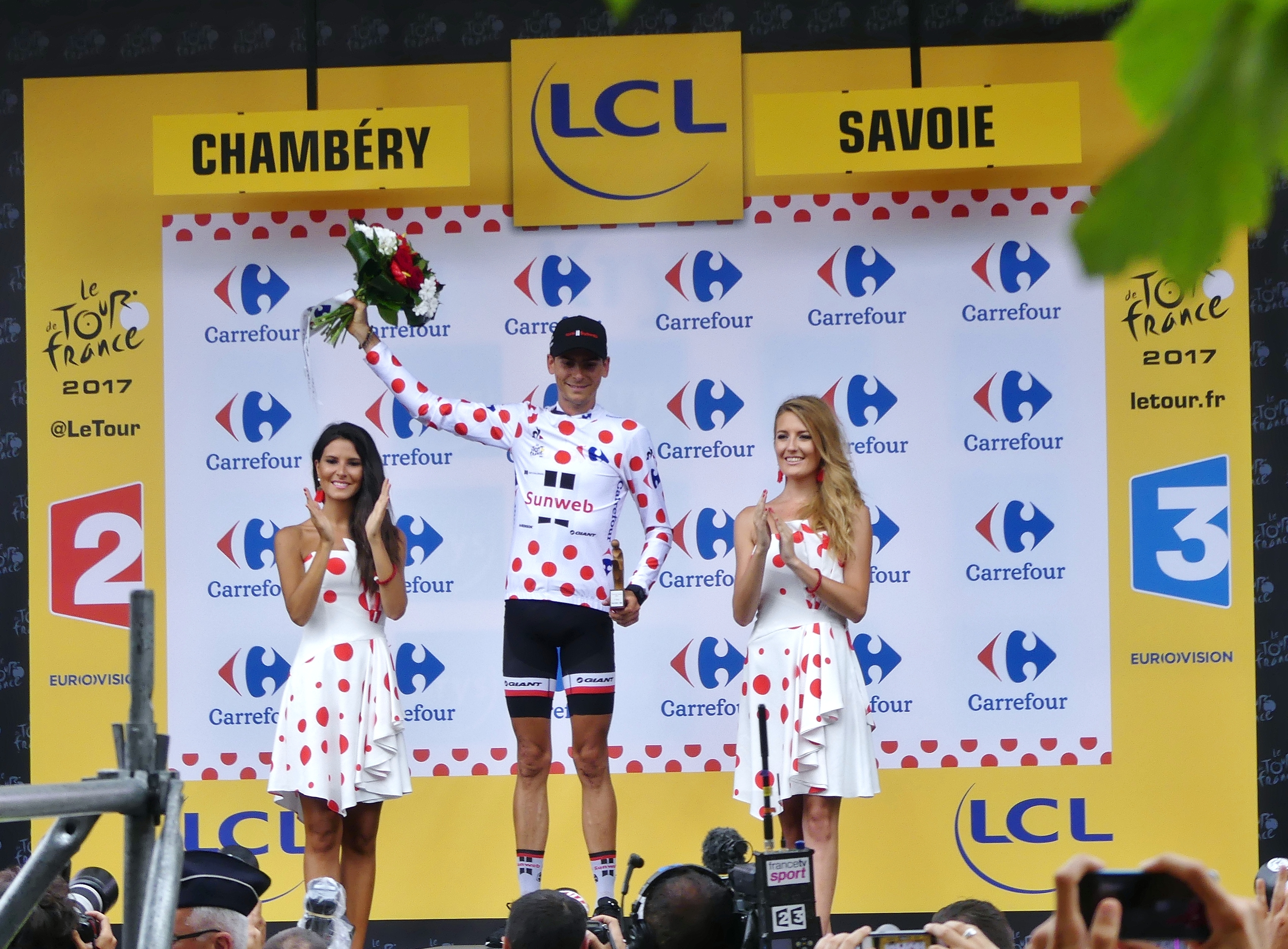 Sight of Warren Barguil wearing the white jersey with polka dots as the best climber, on the podium at Chambéry (Savoie, France) at the end of the 9th step of Tour de France 2017.